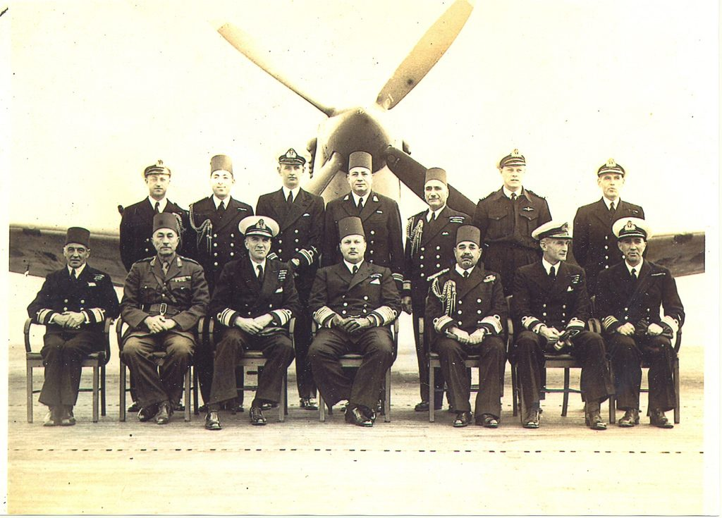 Sitting from left to right: Rear Admiral Sir Creaghton Pasha, Lt. Gen. Fatay Pasha, Vice Admiral Tennant R.N., King Farouk I, Vice Admiral Hamza Pasha, Rear Admiral Oliver R. N., H.M.S. Hunter's Captain Torlesse R.N. Standing (Left to Right): Flag Lieut. To V.Admiral Tennant, Liut Commander Atef, HMS Hunter's Commander Flying Lieutenant, Lieut. Commander Allingham R.N., Lieutenant Commander Ezzat, Rear Admiral Elgadan Pasha, H.M.S. Hunter's Wing Leader Lieut. Commander Baldwin R.N., H.M.S. Hunter's Executive Officer commander Shwann R.N.V.R In Alexandria, January of 1945.